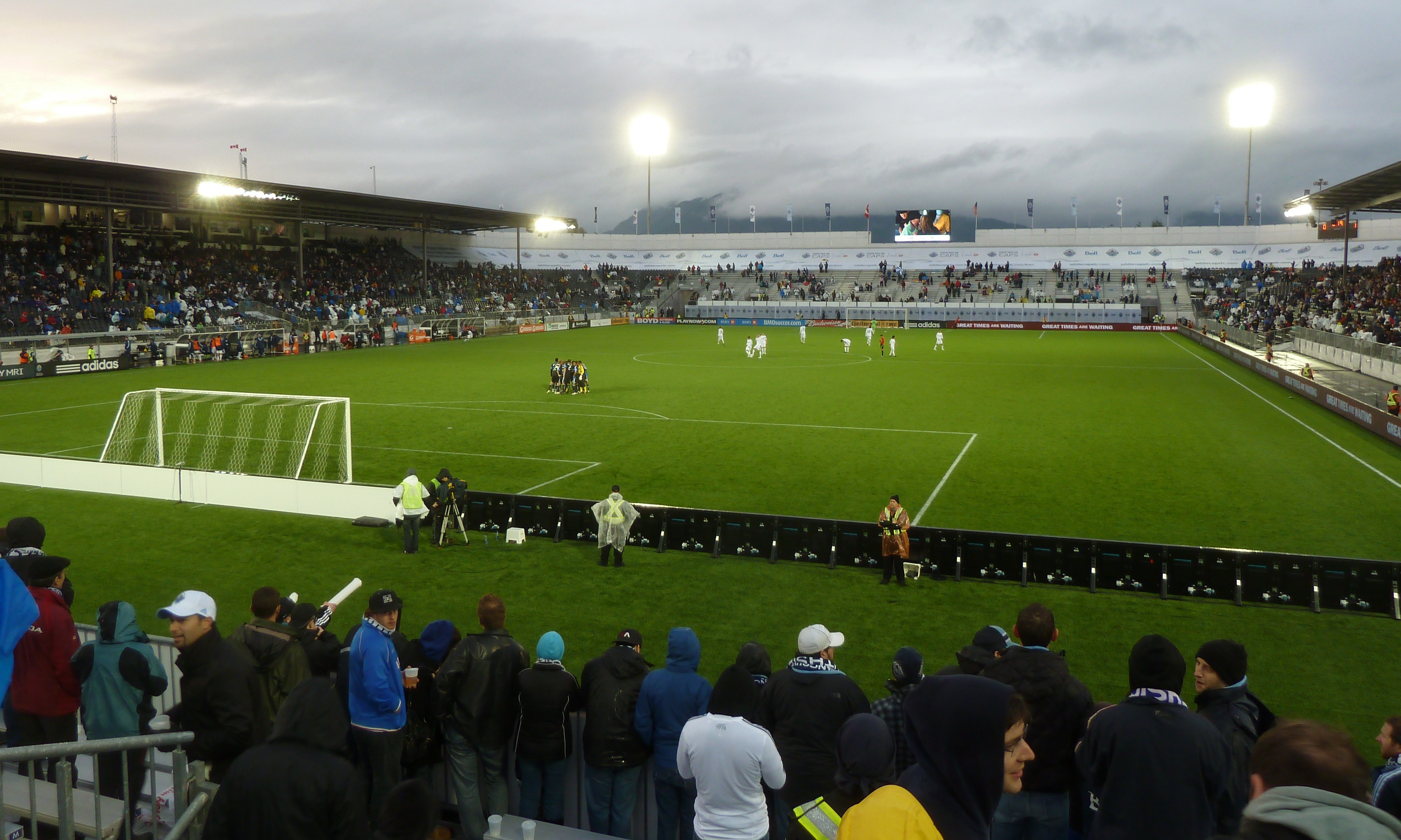 Vancouver vs San Jose, 11-May-2011